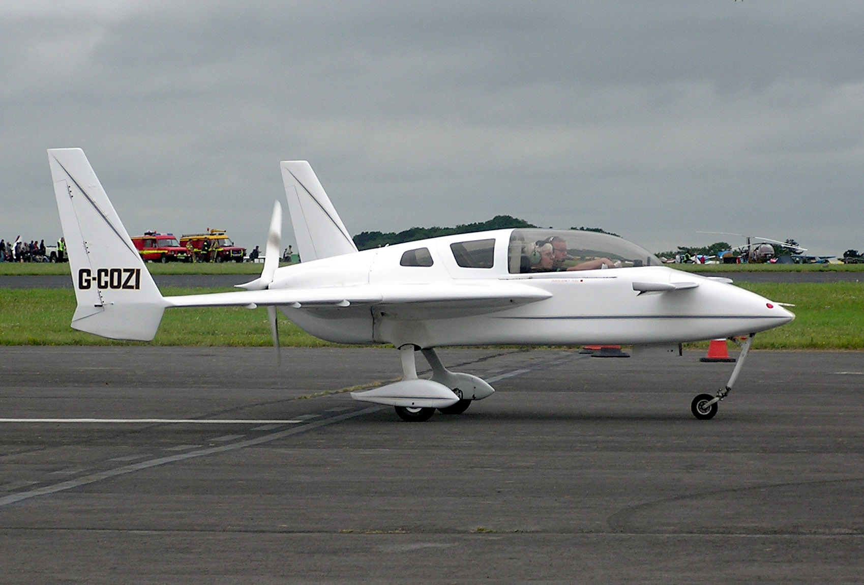 Rutan Cosy Mk.III (UK registration G-COZI) at Kemble Airfield, Gloucestershire, England. Built 1993. Photographed by Adrian Pingstone in July 2005 and placed in the public domain.